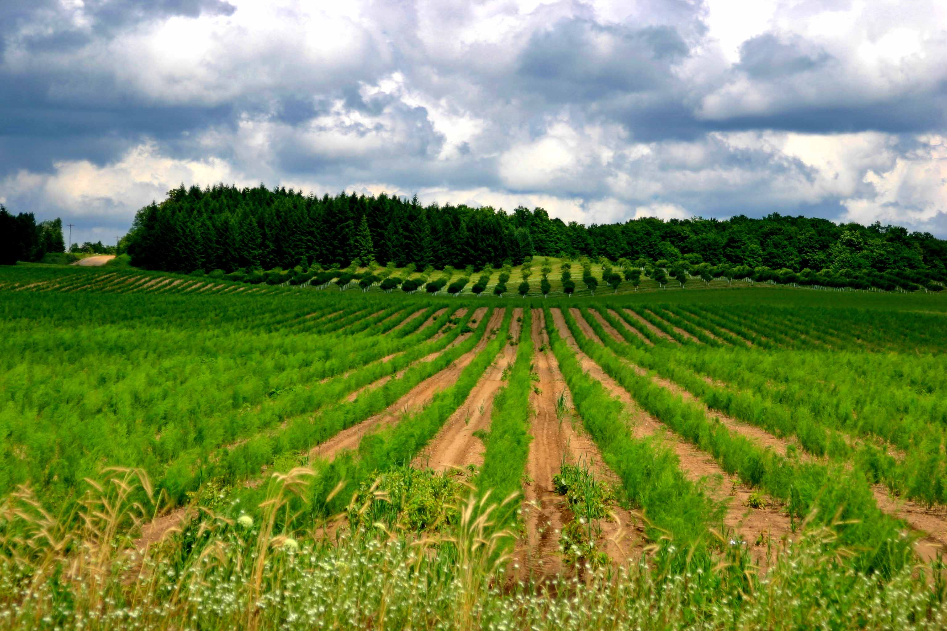 This is a commercial asparagus production field in Oceana County, Michigan, USA during the growing season. The field has gone to fern.